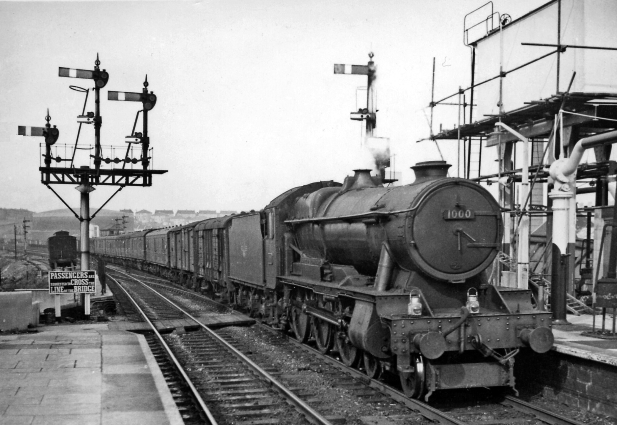 Southbound parcels train at Bristol Stapleton Road. View northward, towards Filton Junction, Severn Tunnel etc. No. 1000 'County of Middlesex', the first Hawksworth 'County' (built 8/45, with double-chimney), is entering Stapleton Road station on the Up Fast line. The signal gantry on the left anticipate the junction with the line to Clifton Down and Avonmouth.